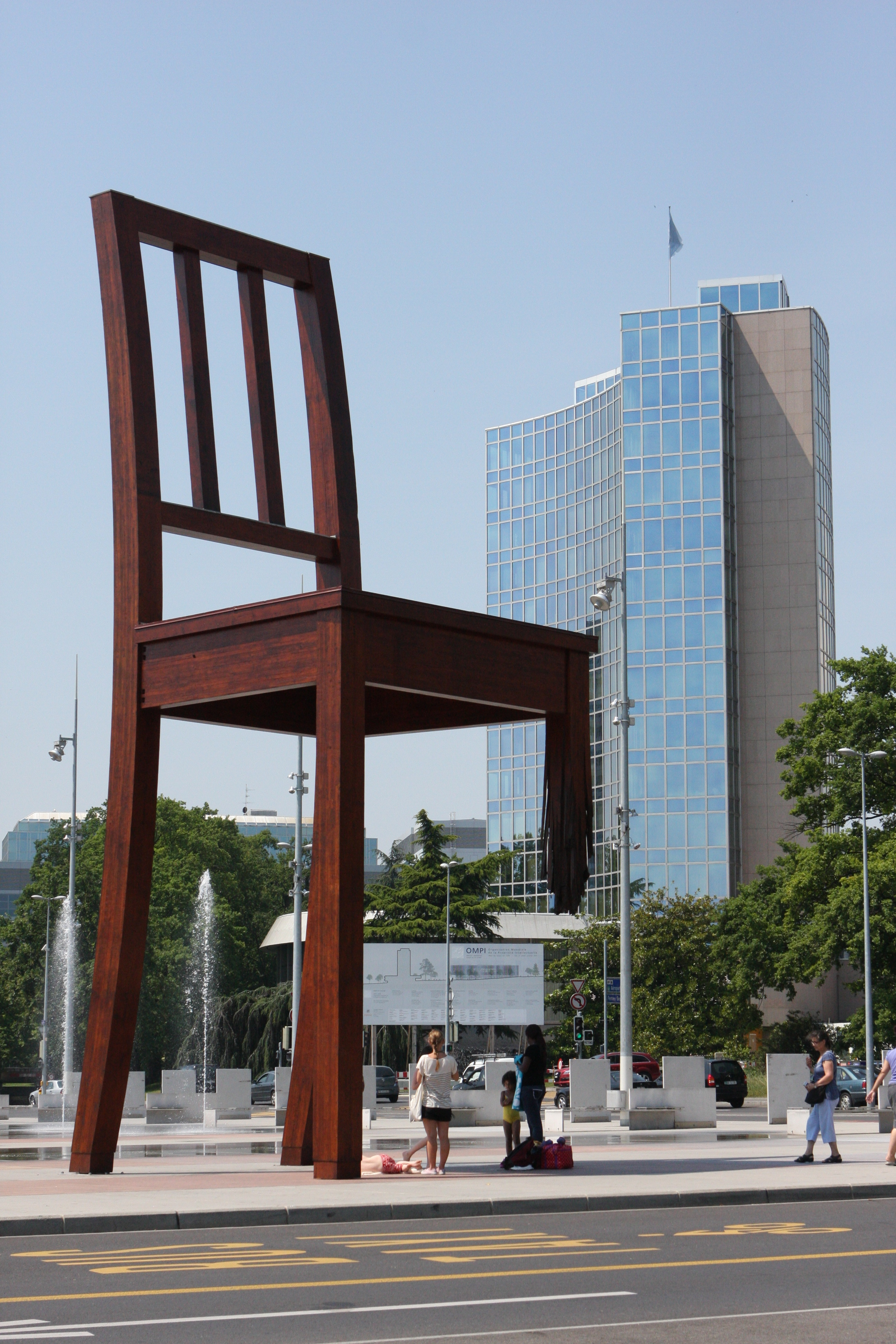 Broken Chair in Geneva